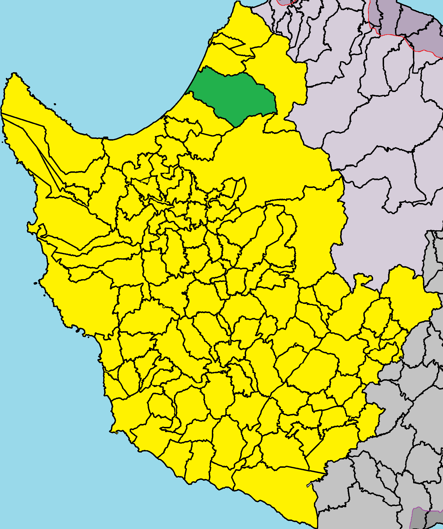 Gialia in Paphos District.